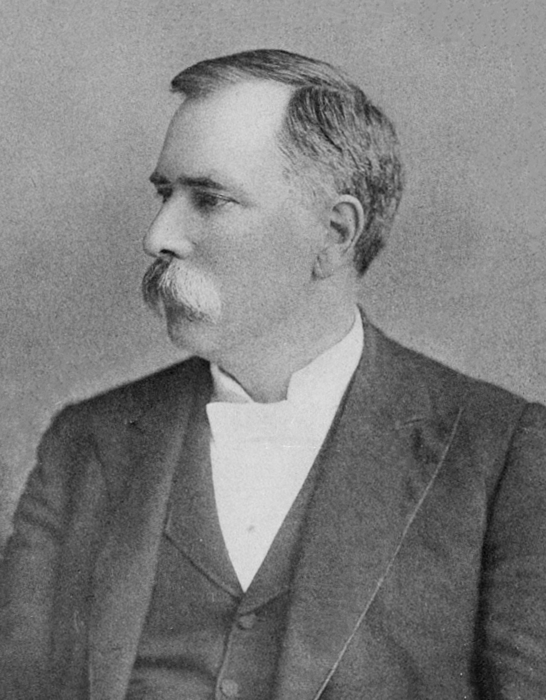 Case Broderick (Kansas Congressman)